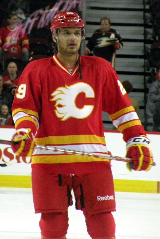 Calgary Flames forward Akim Aliu prior to a National Hockey League game against the Anaheim Ducks.